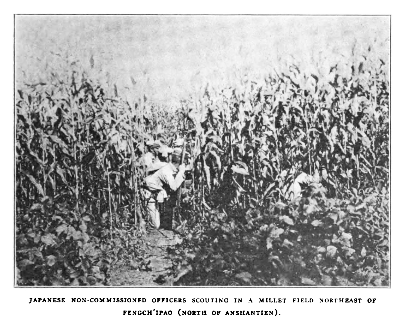 Imperial Japanese non-commissioned officers scouting in a millet field northeast of Fengch'ipao (north of Anshantien [which is between Tashihchiao and Liaoyang])